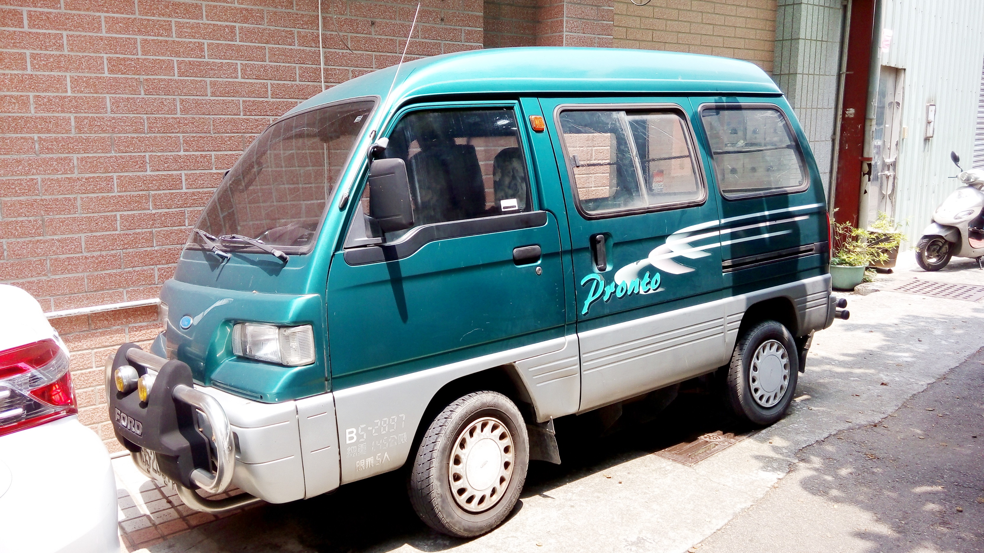 Front view of the 2nd generation of Ford Pronto, photoed in Taiwan